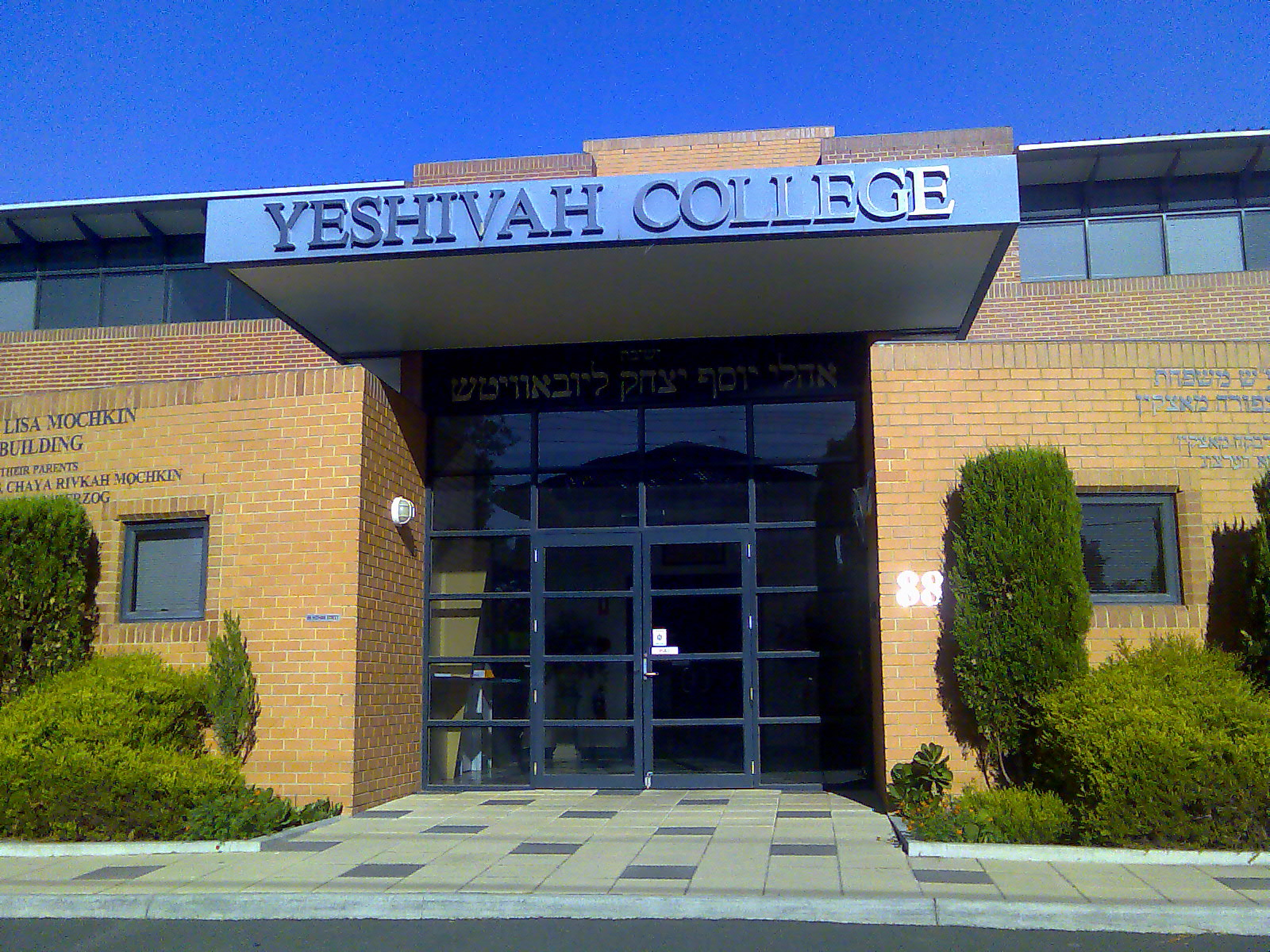 The Motchkin building of the Yeshiva College in Melbourne.